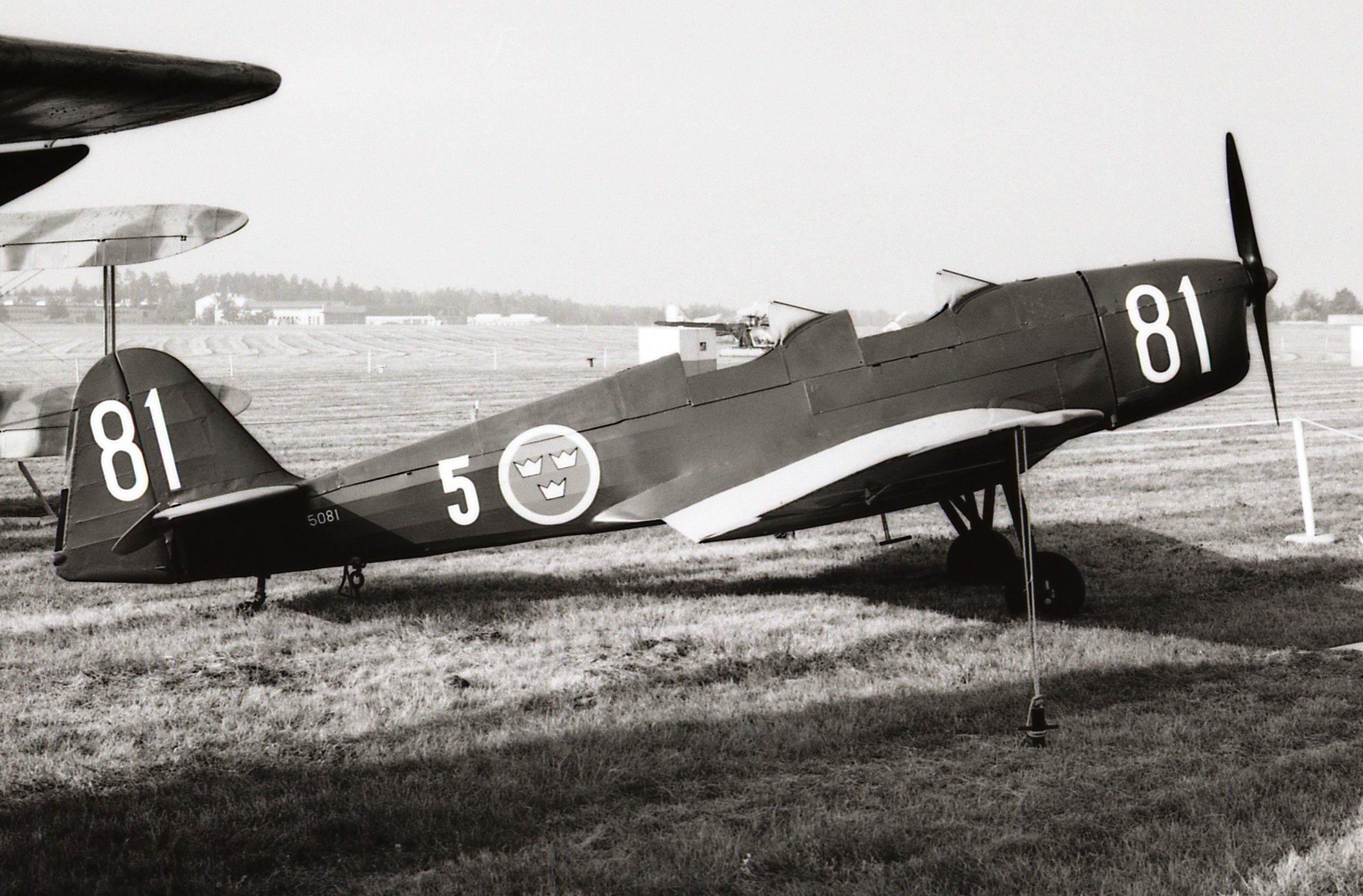 Klemm 35, Swedish Air Force designation Sk 15